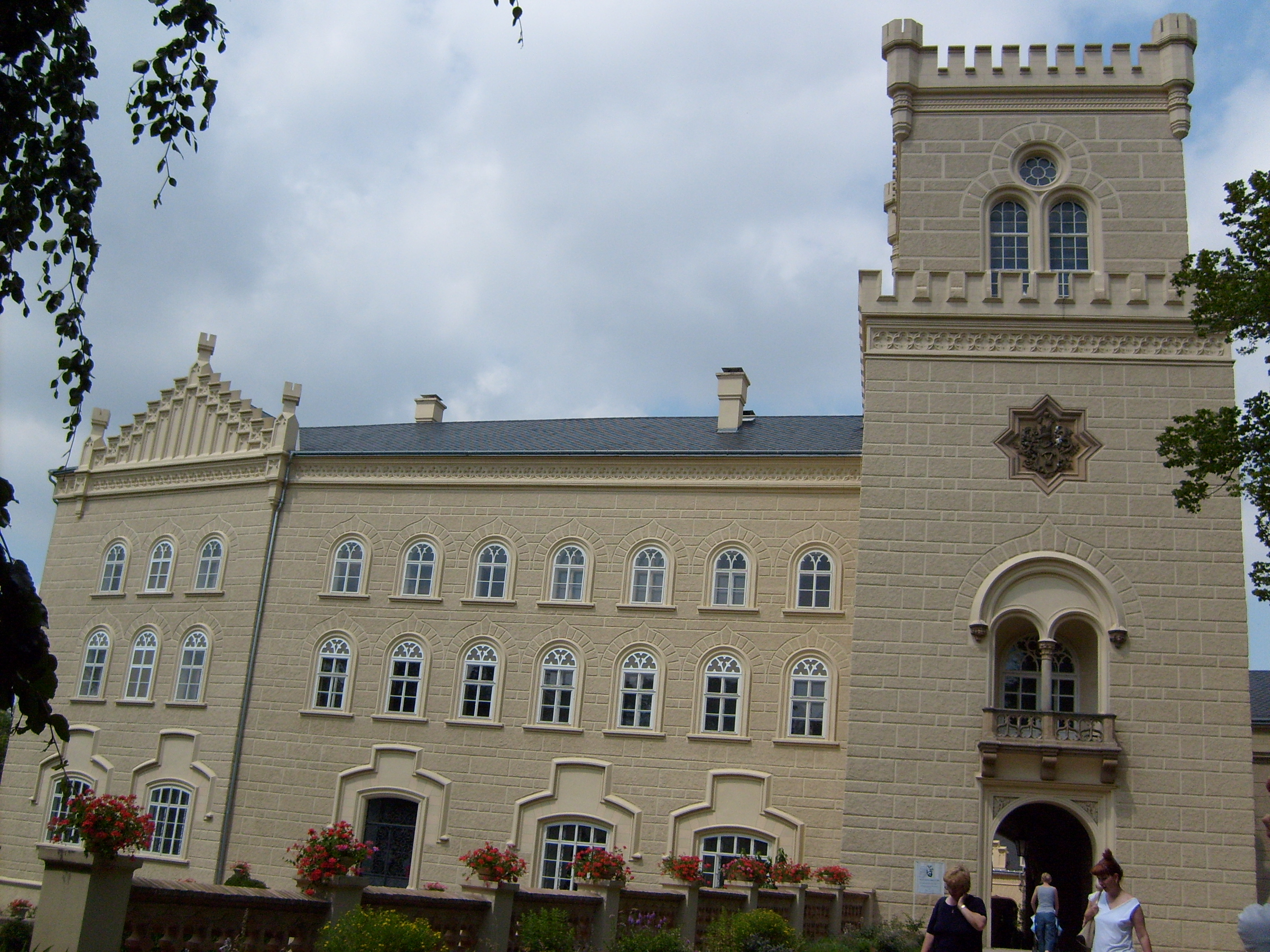 Castle, Chyše, Karlovy Vary Region, Czech Republic